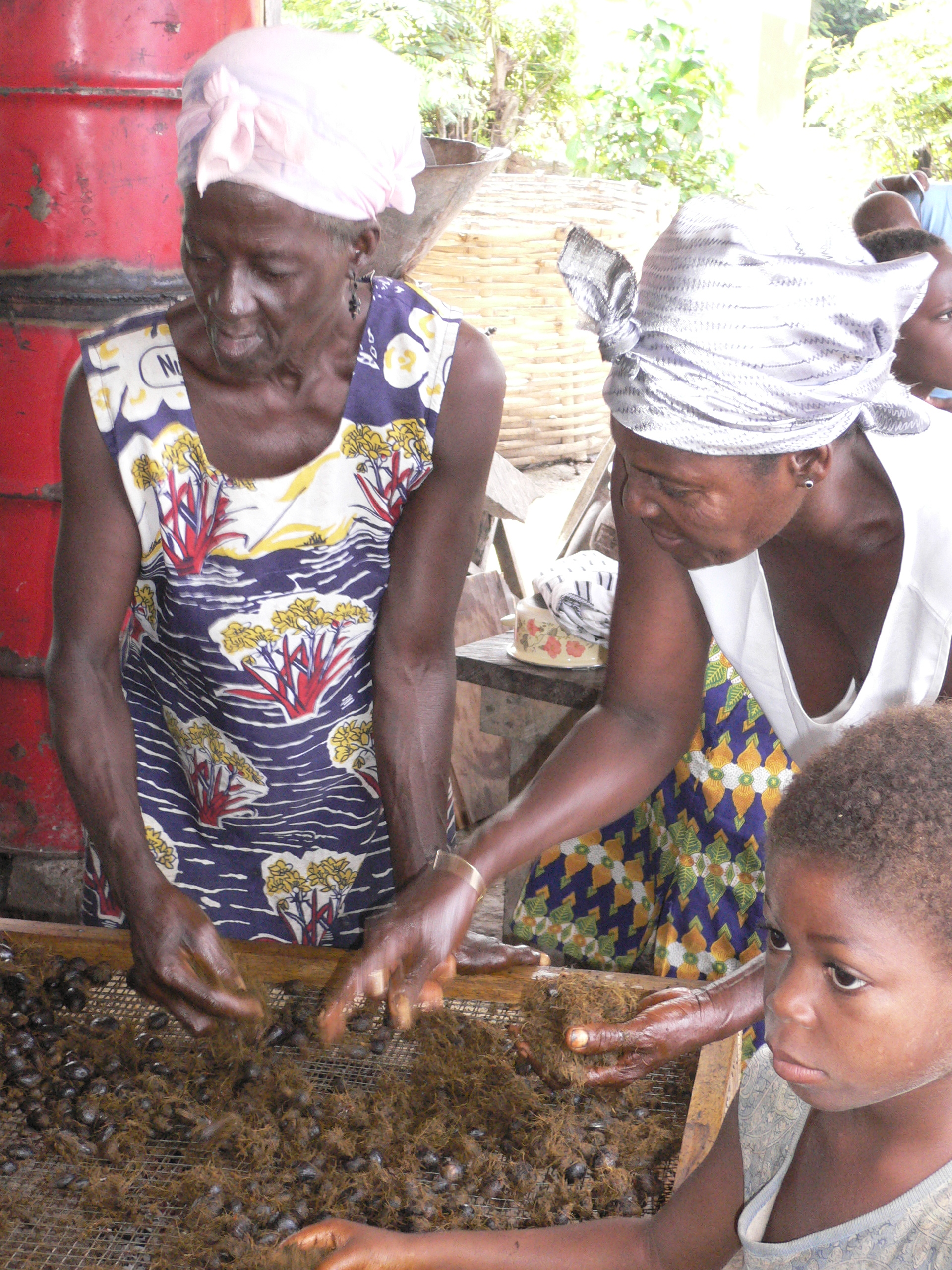 Two women working in Ghana. They are producing palm oil.